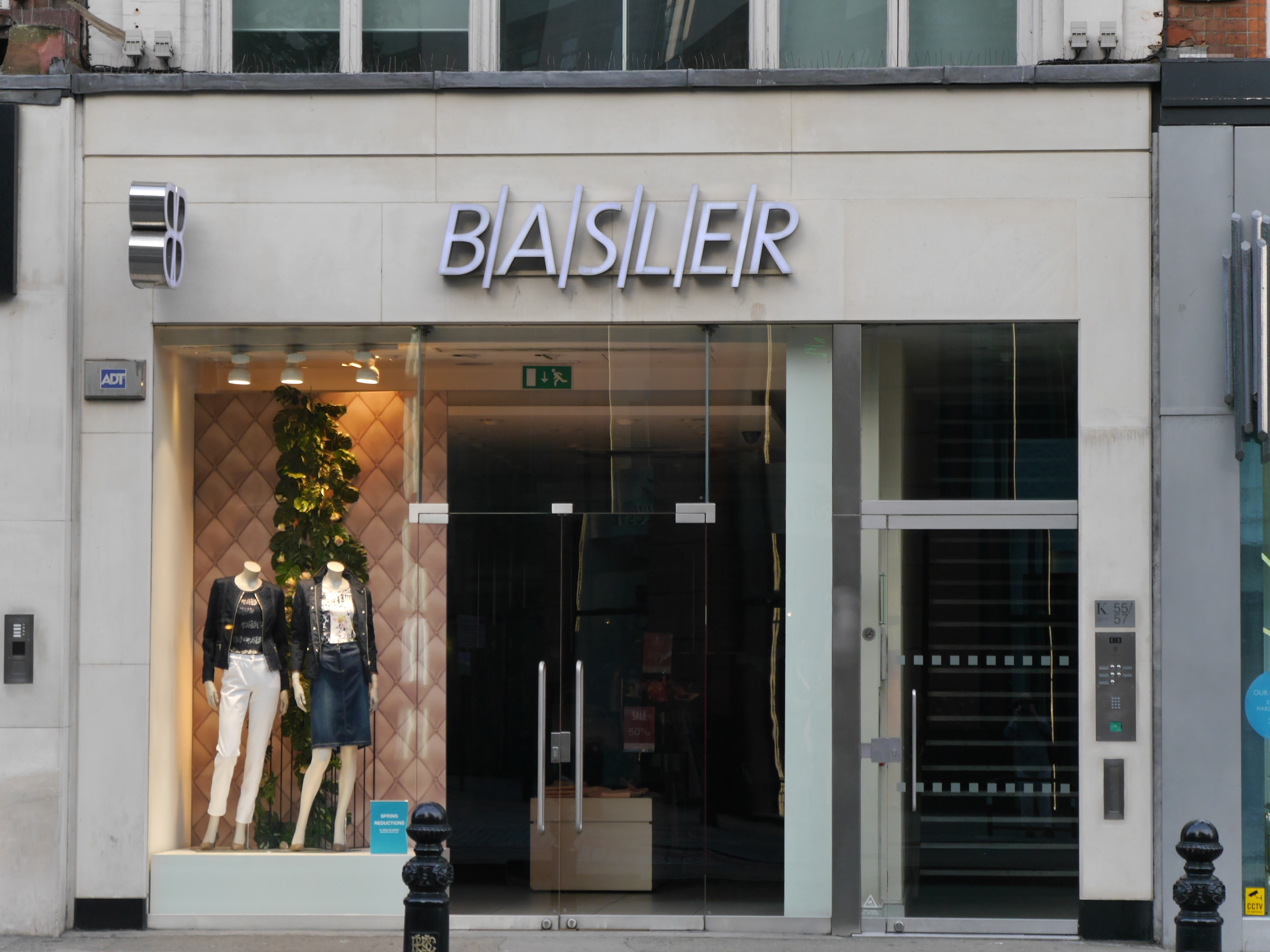 Brompton Road, London, June 2016